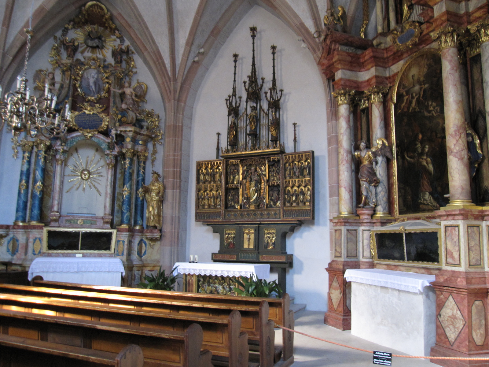 St. Barbara's chapel in Meran, South Tyrol.